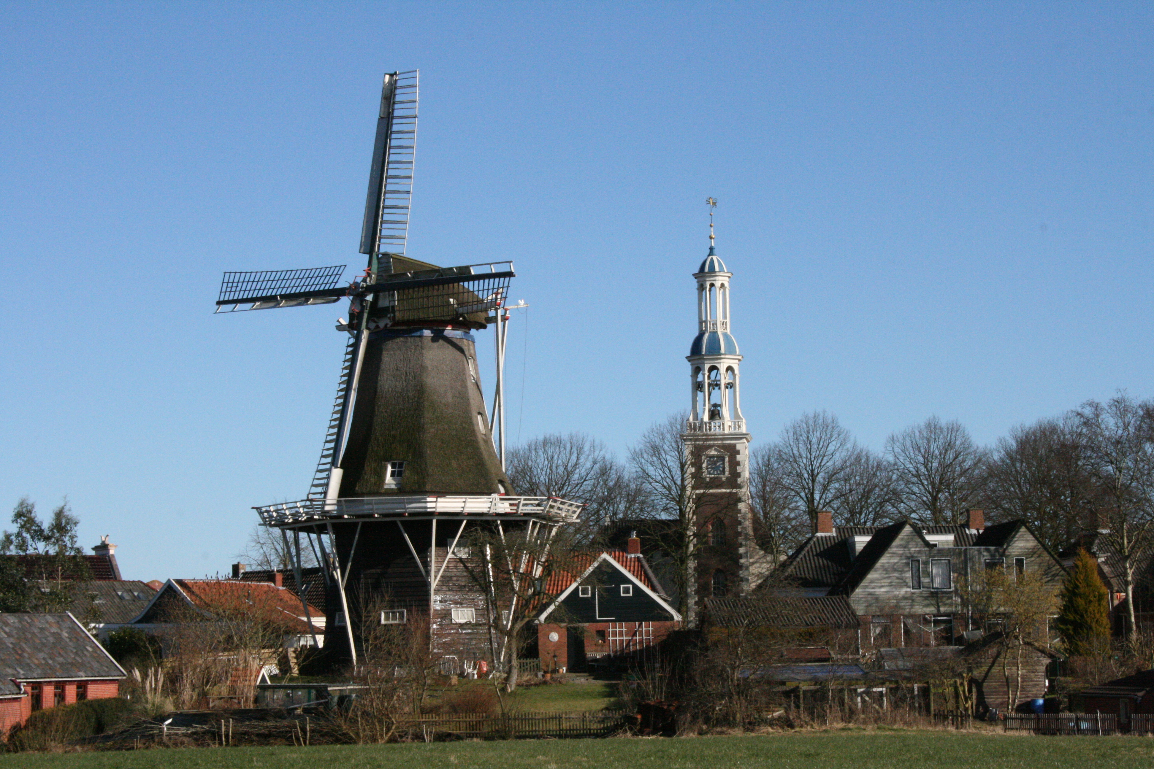 Spijk, municipality of Delfzijl, province Groningen (Netherlands). Windmill and church